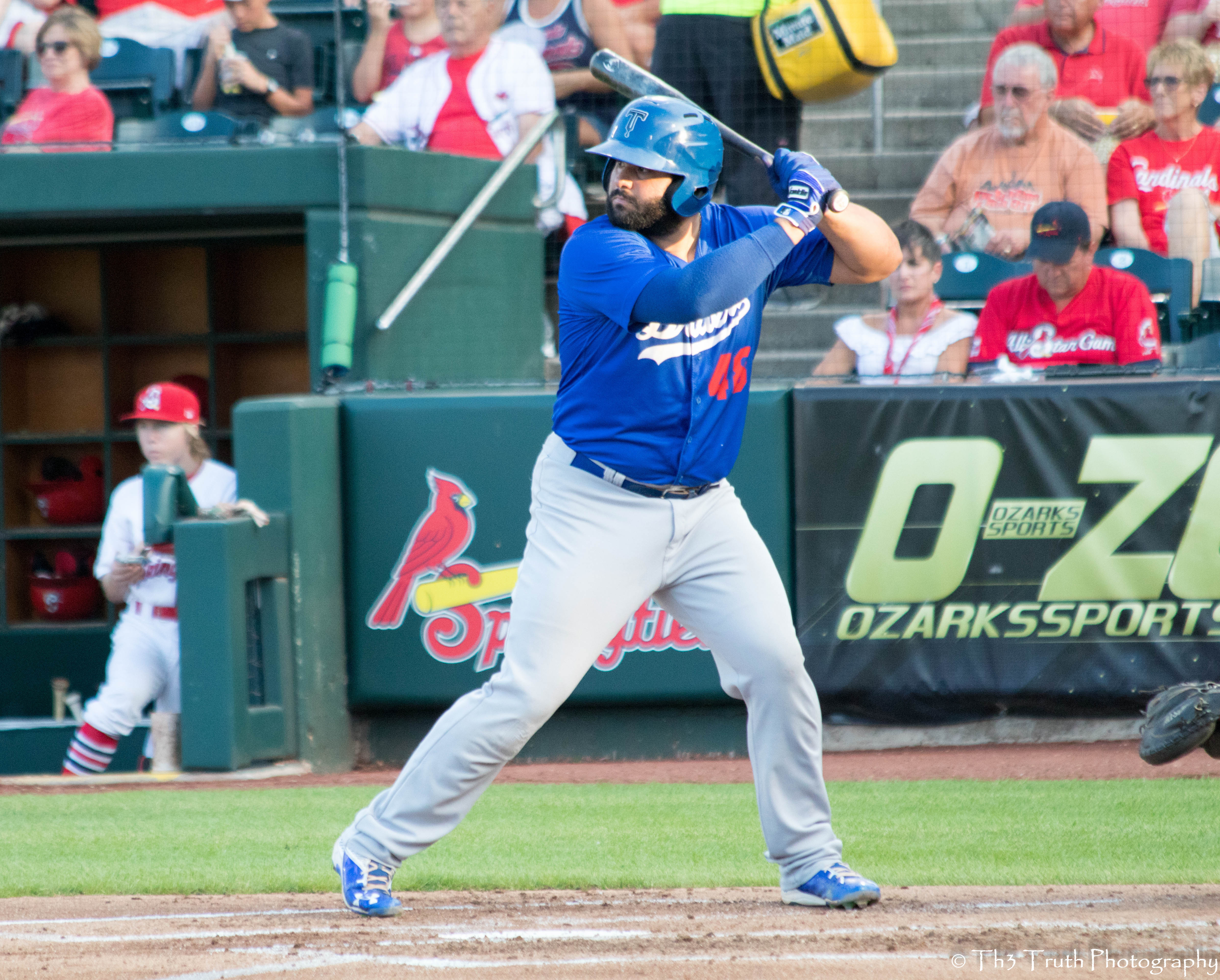 Shawn Zarraga batting against the Springfield Cardinals with the Tulsa Drillers in 2016.